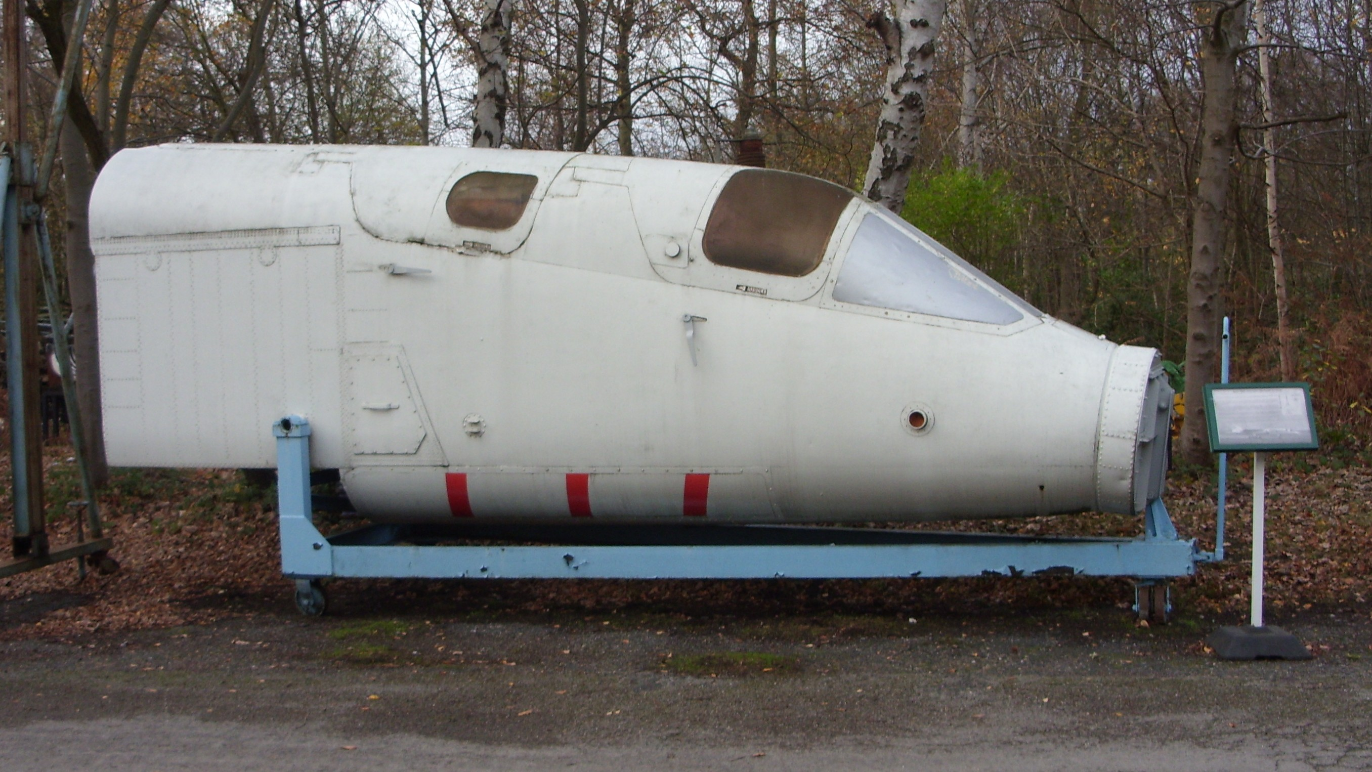 A test forward fuselage of a British Aircraft Corportation TSR-2 on display at the Brooklands Museum, Surrey, England